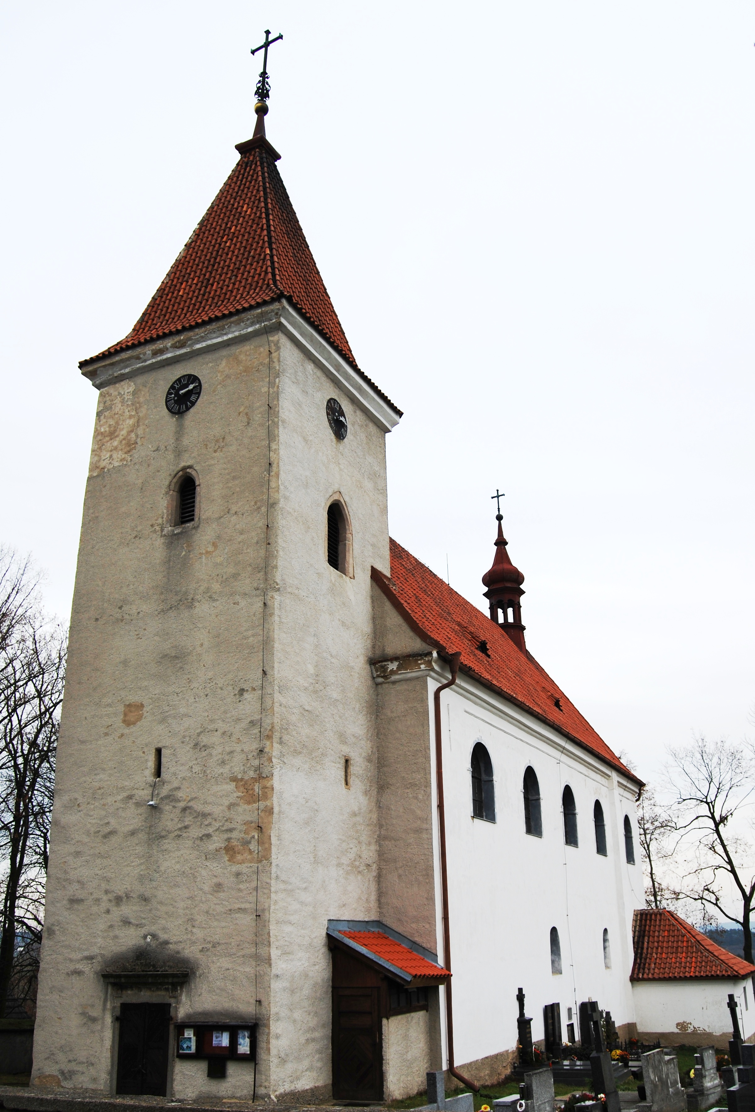 Třebsko village in Příbram District, Czech Republic. Church of the Assumption of the Virgin Mary